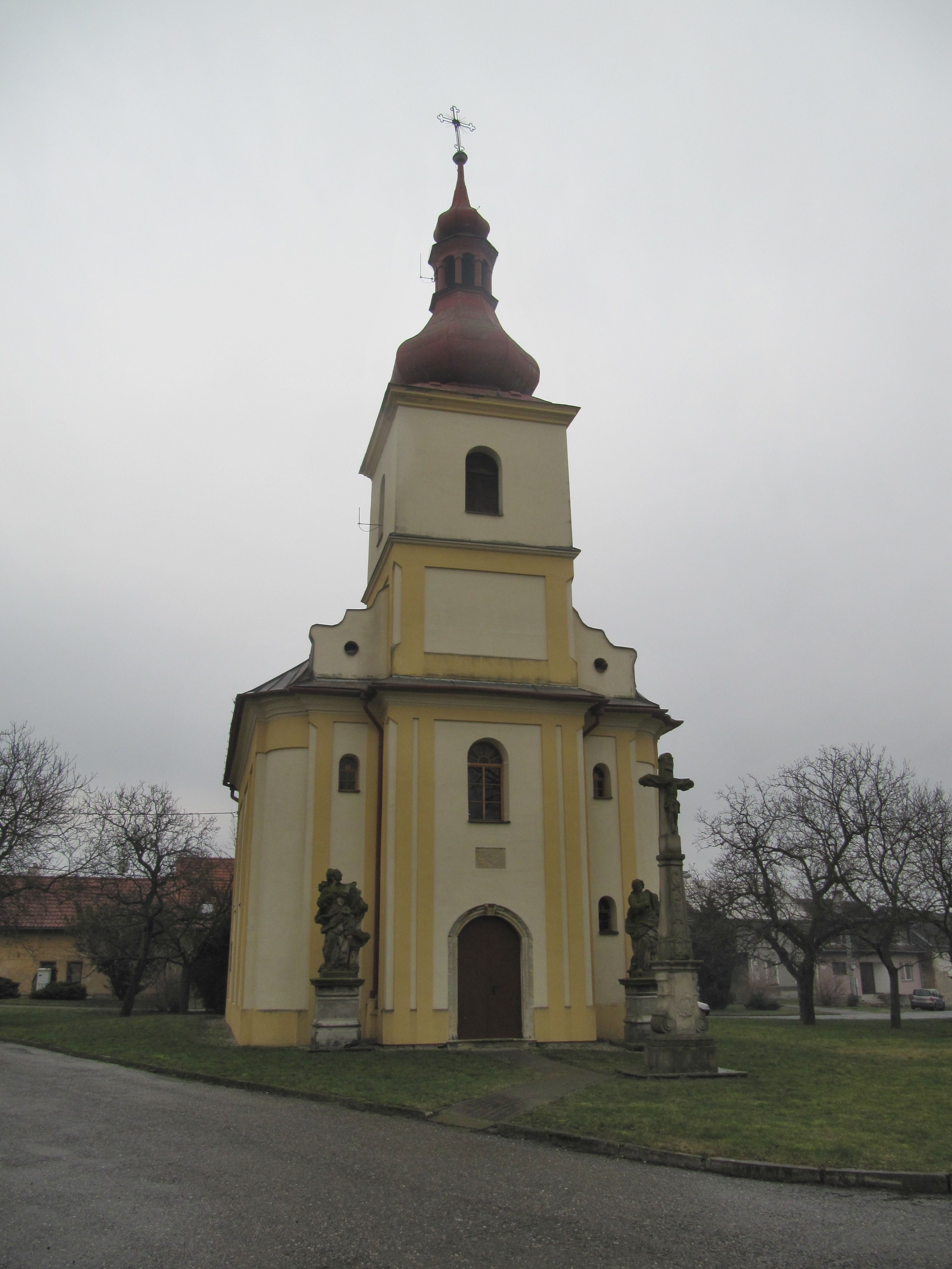 Velký Týnec, Olomouc District, Czech Republic, part Vsisko.